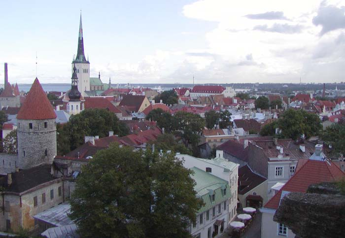 Photo of Tallinn old town